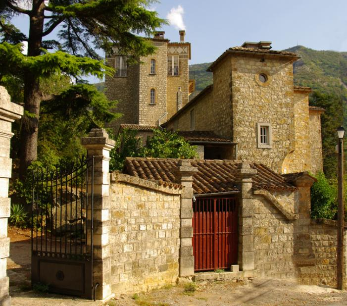 Castel of Bez